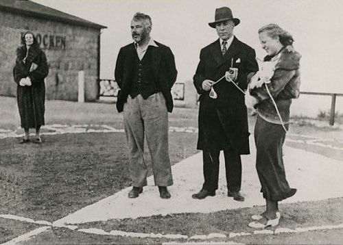 An interesting witch experiment on the Brocken in Harz, the well-known English Prof. Harry Price for the first time performed a great experiment in order to investigate and confirm the mystical belief in the old saying. As experiment served the old saying that in a full moon-night, a young goat on Brocken would turn into a handsome young man through a maiden pure in heart. The magical triangle on Brocken, in which the whitch experiment took place. Prof. Price with the young goat, at his side Prof. Joad and Ms. Urta Bohn, the maiden pure in heart, who performed the experiment.